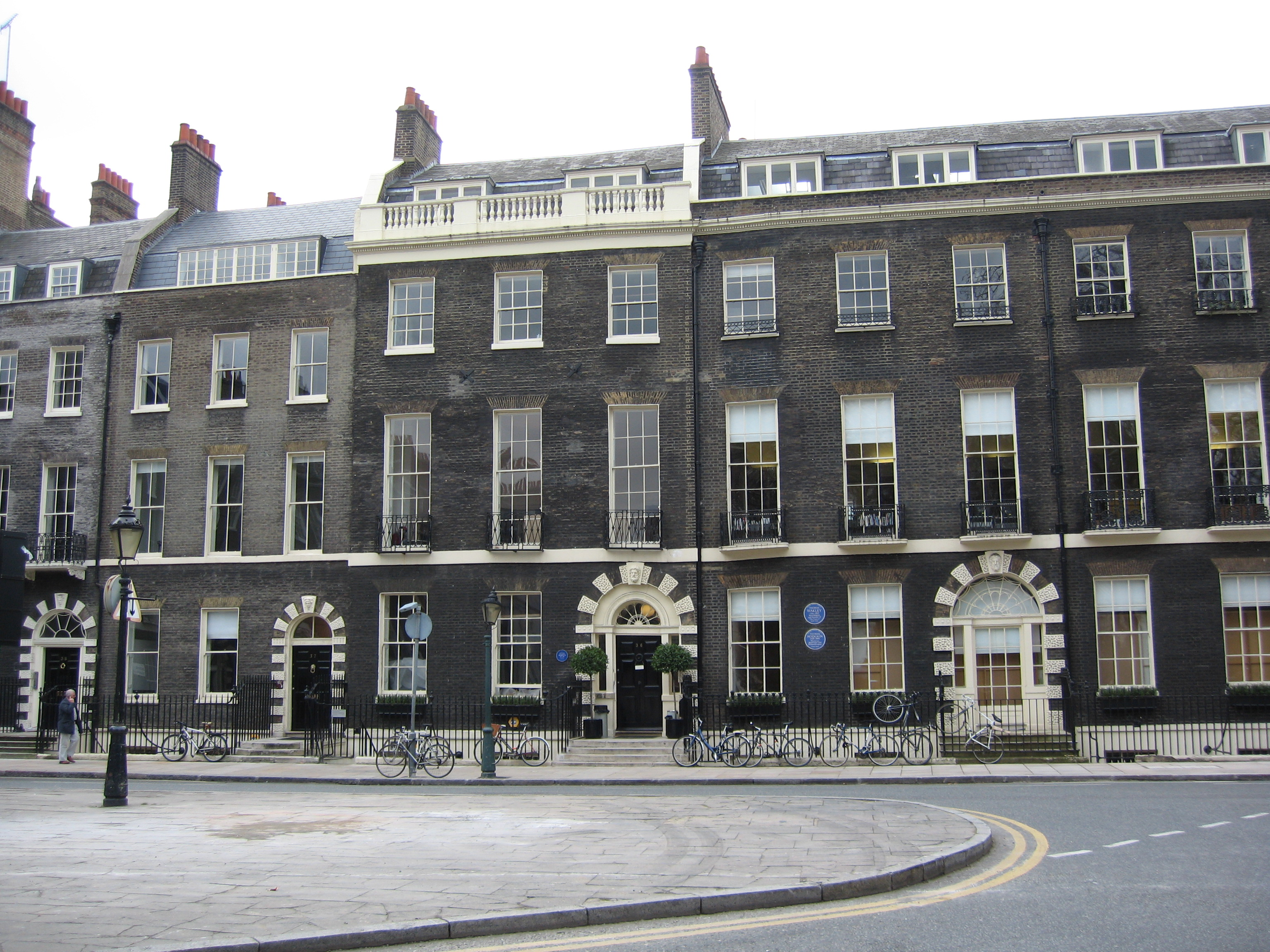 Bedford Square